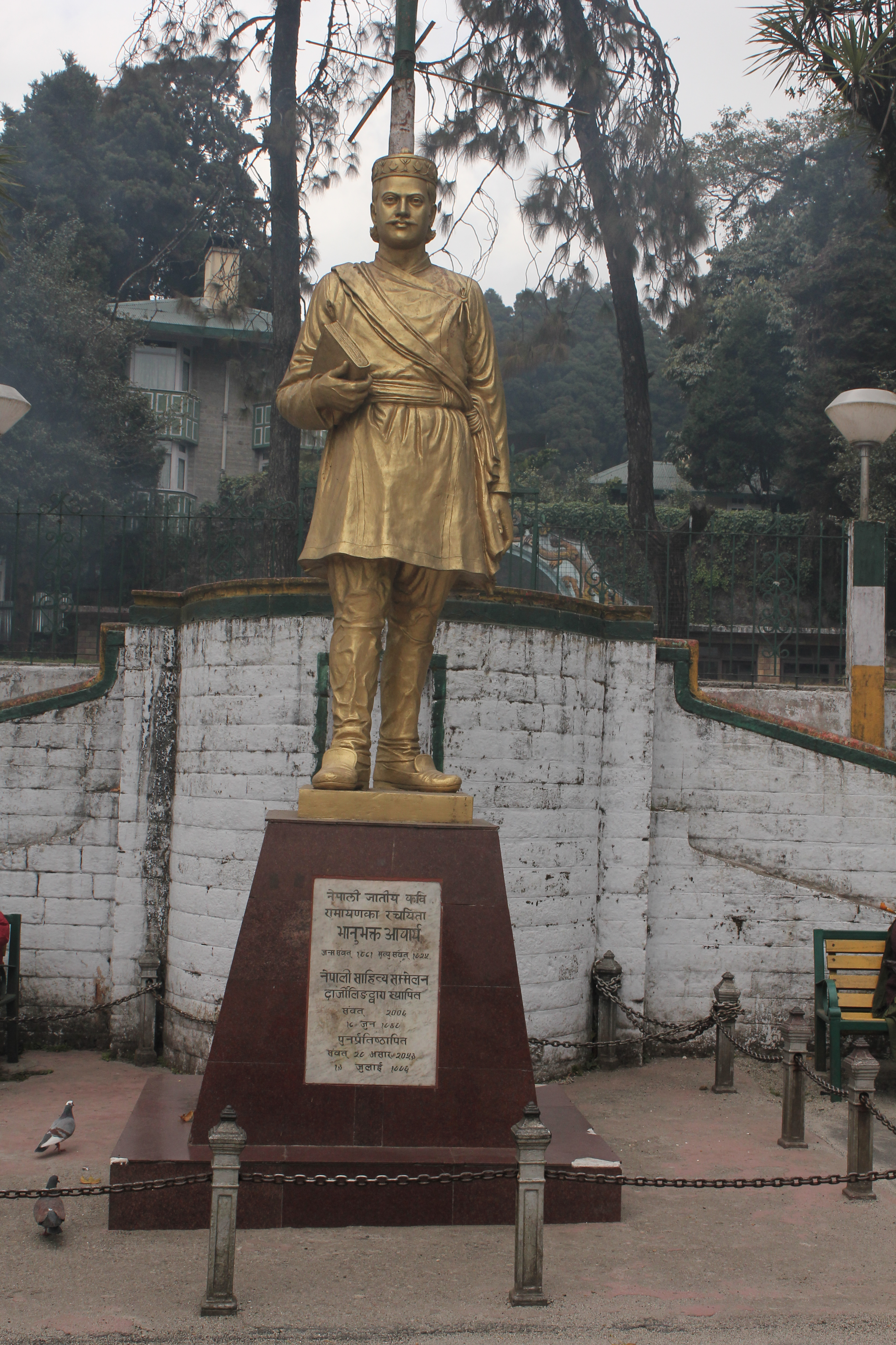 Bhanubhakta's statue at Chaurastha Darjeeling India